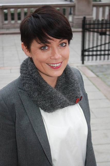 Else May Botten